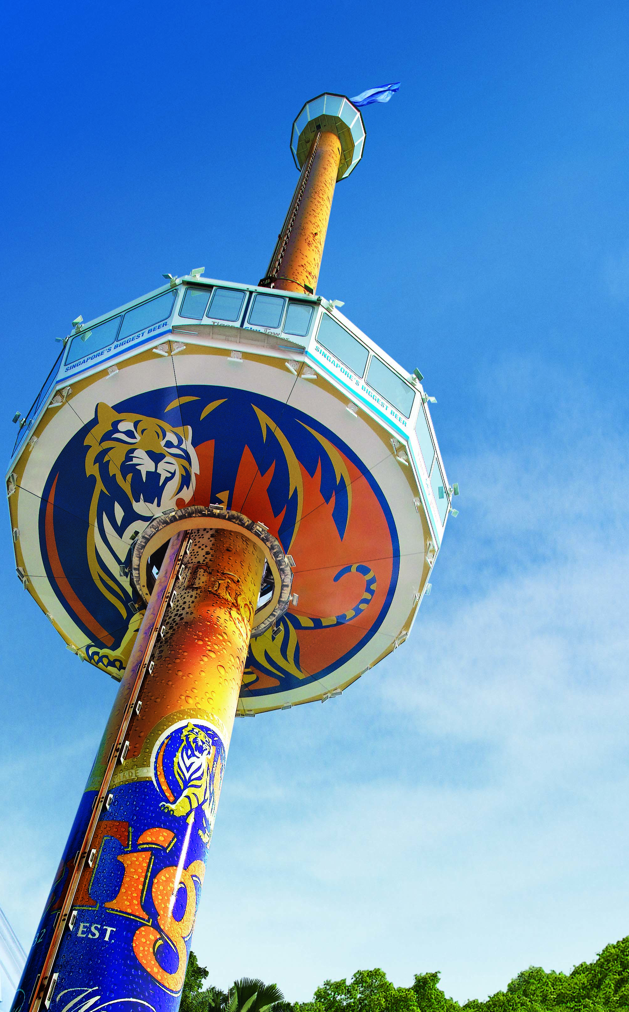 Tiger Sky Tower during daytime.